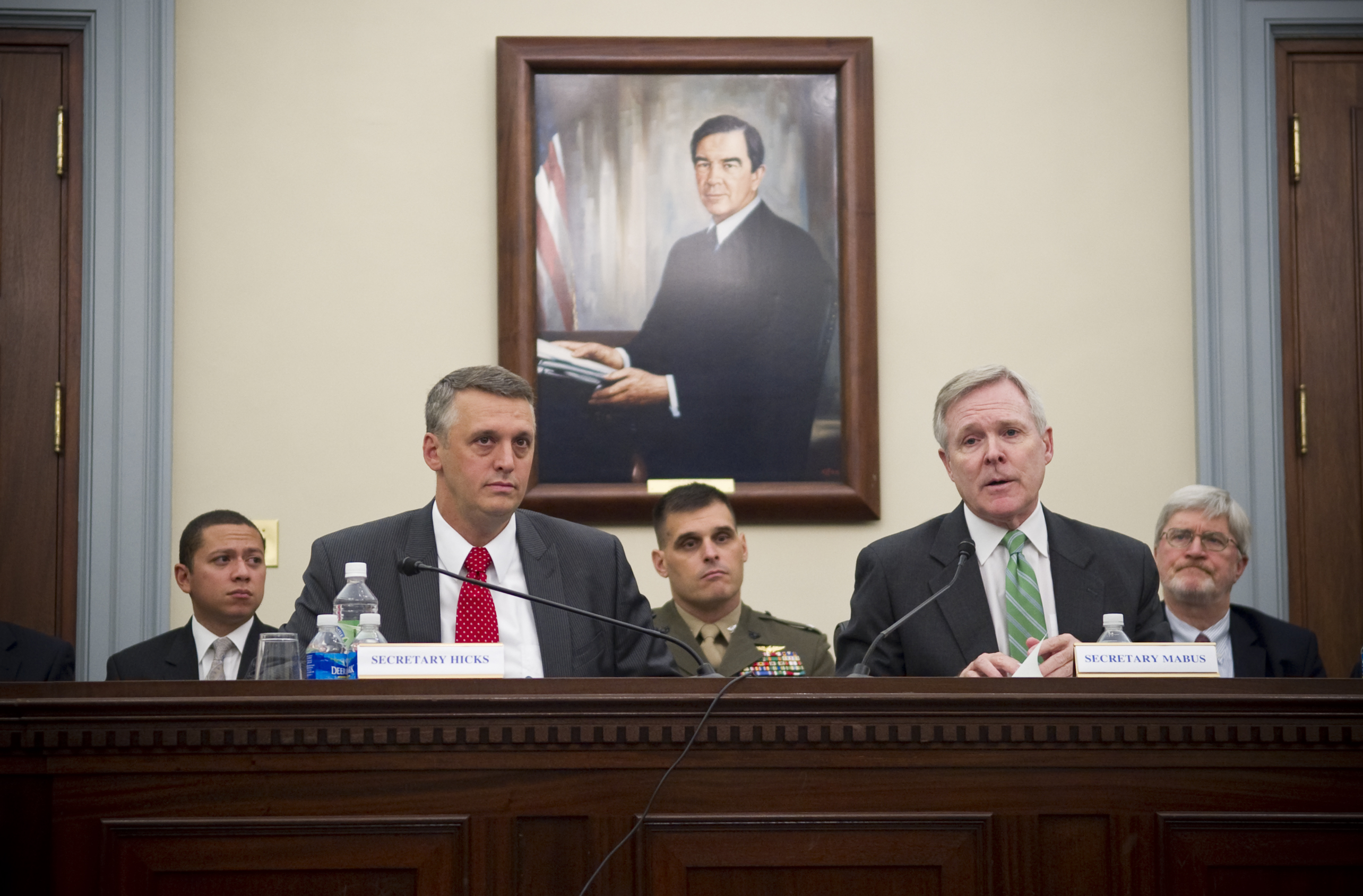 WASHINGTON (Sept. 23, 2010) Secretary of the Navy (SECNAV) the Honorable Ray Mabus, right, and Deputy Assistant Secretary of the Navy (Energy) Thomas Hicks answer questions from members of the House Appropriations Committee-Defense regarding Department of the Navy energy initiatives. (U.S. Navy photo by Mass Communication Specialist 2nd Class Kevin S. O'Brien/Released)